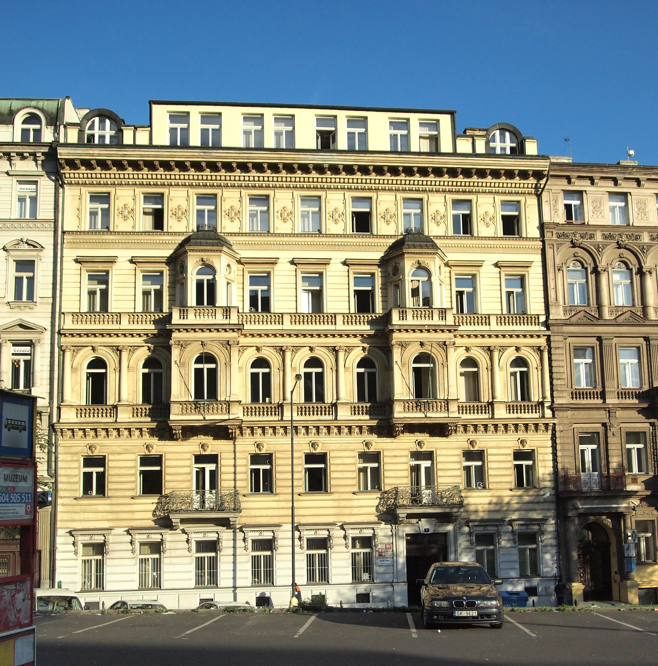 Building on the street Washingtonova in Prague. This photograph was taken with an Olympus E-PL1